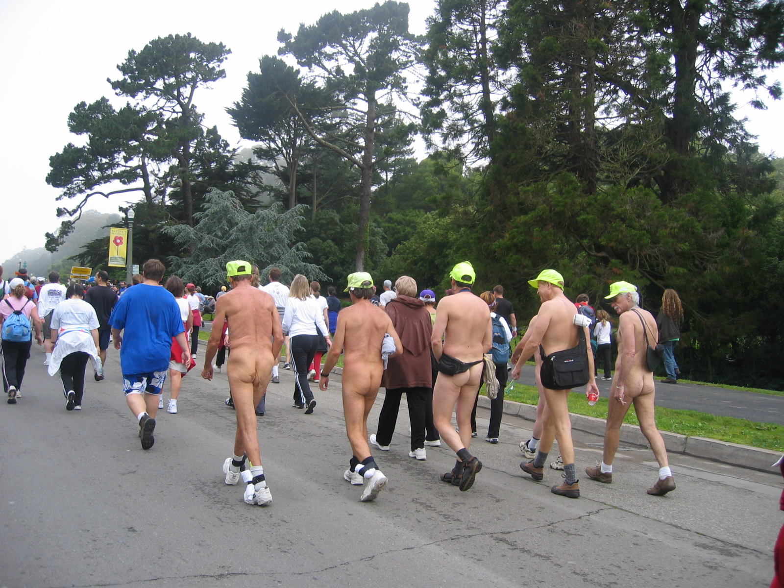 "Clothes may [or may not] make the man, but accessories make the man fabulous."